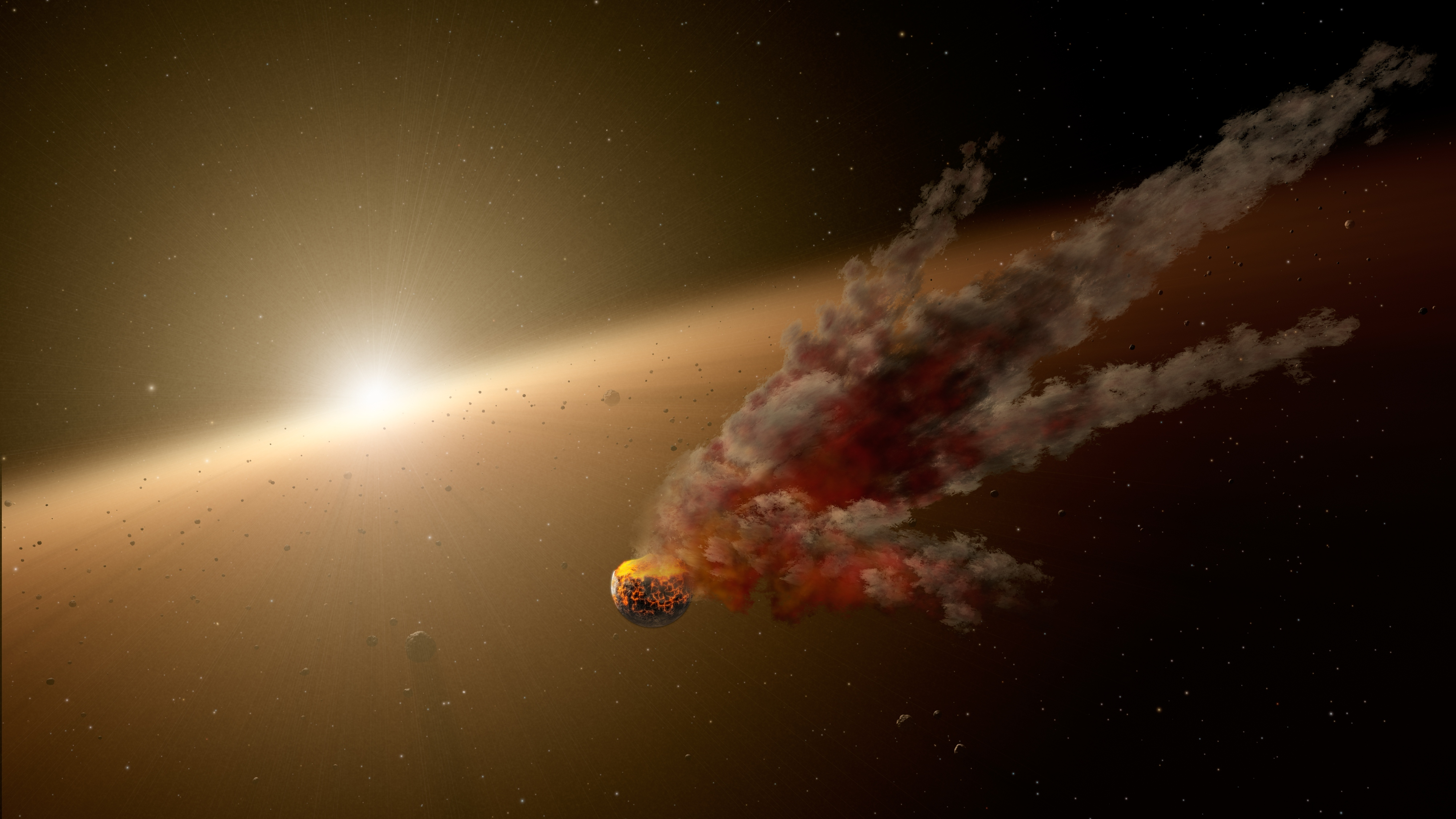 Building Planets Through Collisions (Artist's Concept) Planets, including those like our own Earth, form from epic collisions between asteroids and even bigger bodies, called proto-planets. Sometimes the colliding bodies are ground to dust, and sometimes they stick together to ultimately form larger, mature planets. This artist's conception shows one such smash-up, the evidence for which was collected by NASA's Spitzer Space Telescope. Spitzer's infrared vision detected a huge eruption around the star NGC 2547-ID8 between August 2012 and 2013. Scientists think the dust was kicked up by a massive collision between two large asteroids. They say the smashup took place in the star's "terrestrial zone," the region around stars where rocky planets like Earth take shape. NGC 2547-ID8 is a sun-like star located about 1,200 light-years from Earth in the constellation Vela. It is about 35 million years old, the same age our young sun was when its rocky planets were finally assembled via massive collisions -- including the giant impact on proto-Earth that led to the formation of the moon. The recent impact witnessed by Spitzer may be a sign of similar terrestrial planet building. Near-real-time studies like these help astronomers understand how the chaotic process works. NASA's Jet Propulsion Laboratory, Pasadena, Calif., manages the Spitzer Space Telescope mission for NASA's Science Mission Directorate, Washington. Science operations are conducted at the Spitzer Science Center at the California Institute of Technology in Pasadena. Spacecraft operations are based at Lockheed Martin Space Systems Company, Littleton, Colorado. Data are archived at the Infrared Science Archive housed at the Infrared Processing and Analysis Center at Caltech. Caltech manages JPL for NASA. For more information about Spitzer, visit and